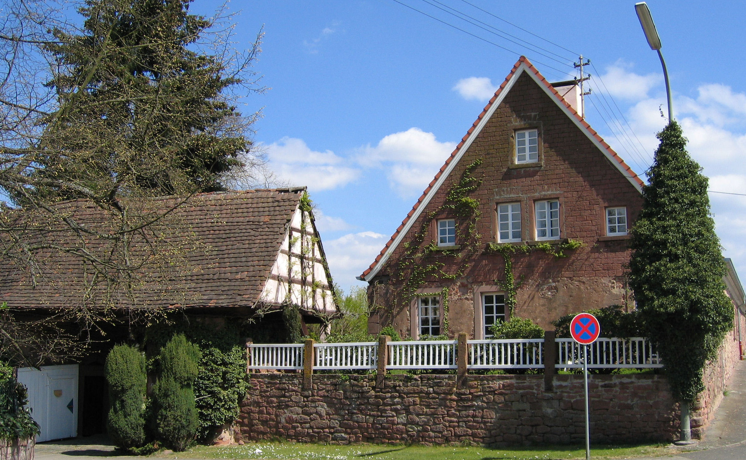 view of Mehlingen, Germany